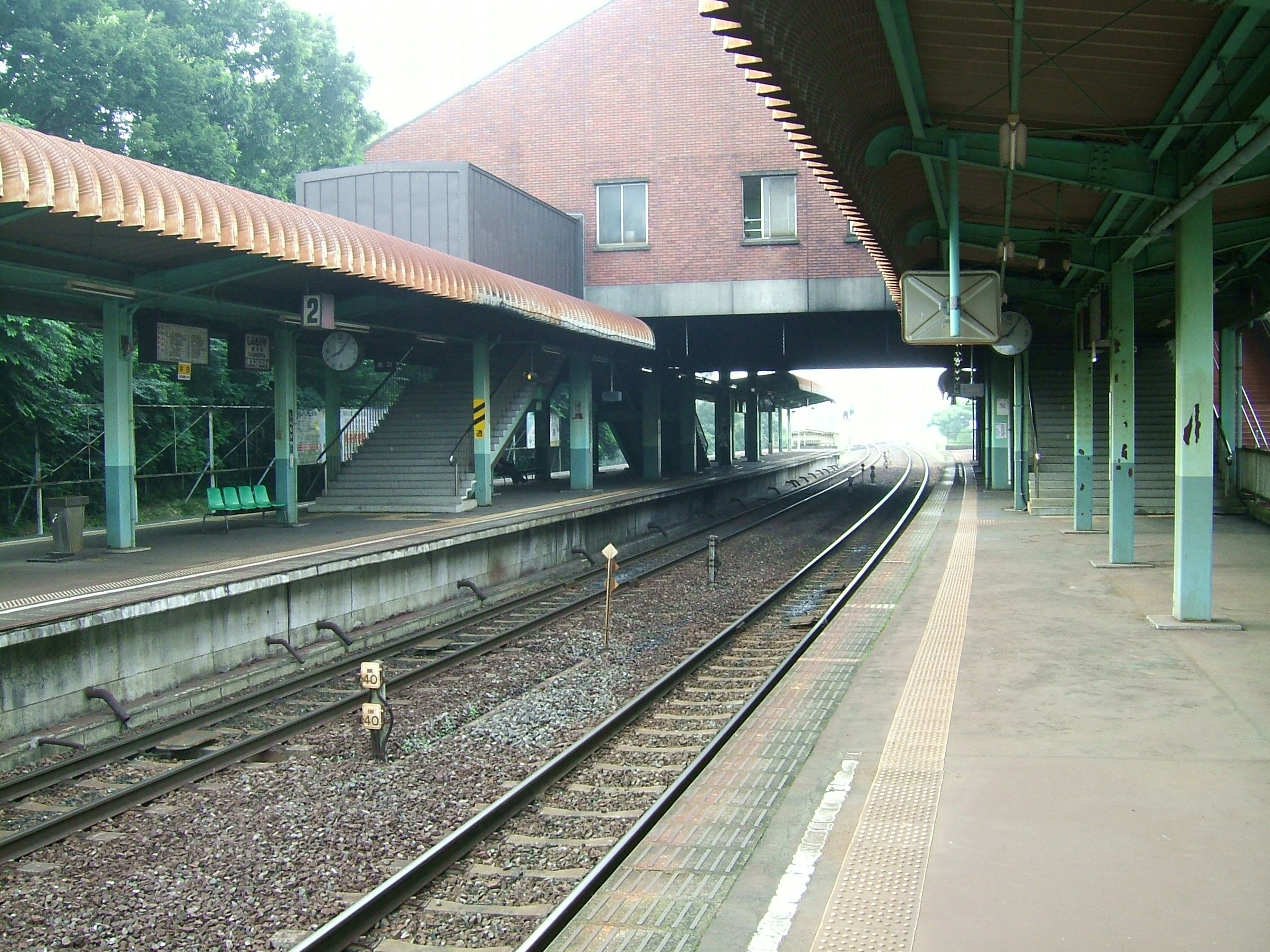 Shin-Moriya Station platform (Kanto Railway Jōsō Line)